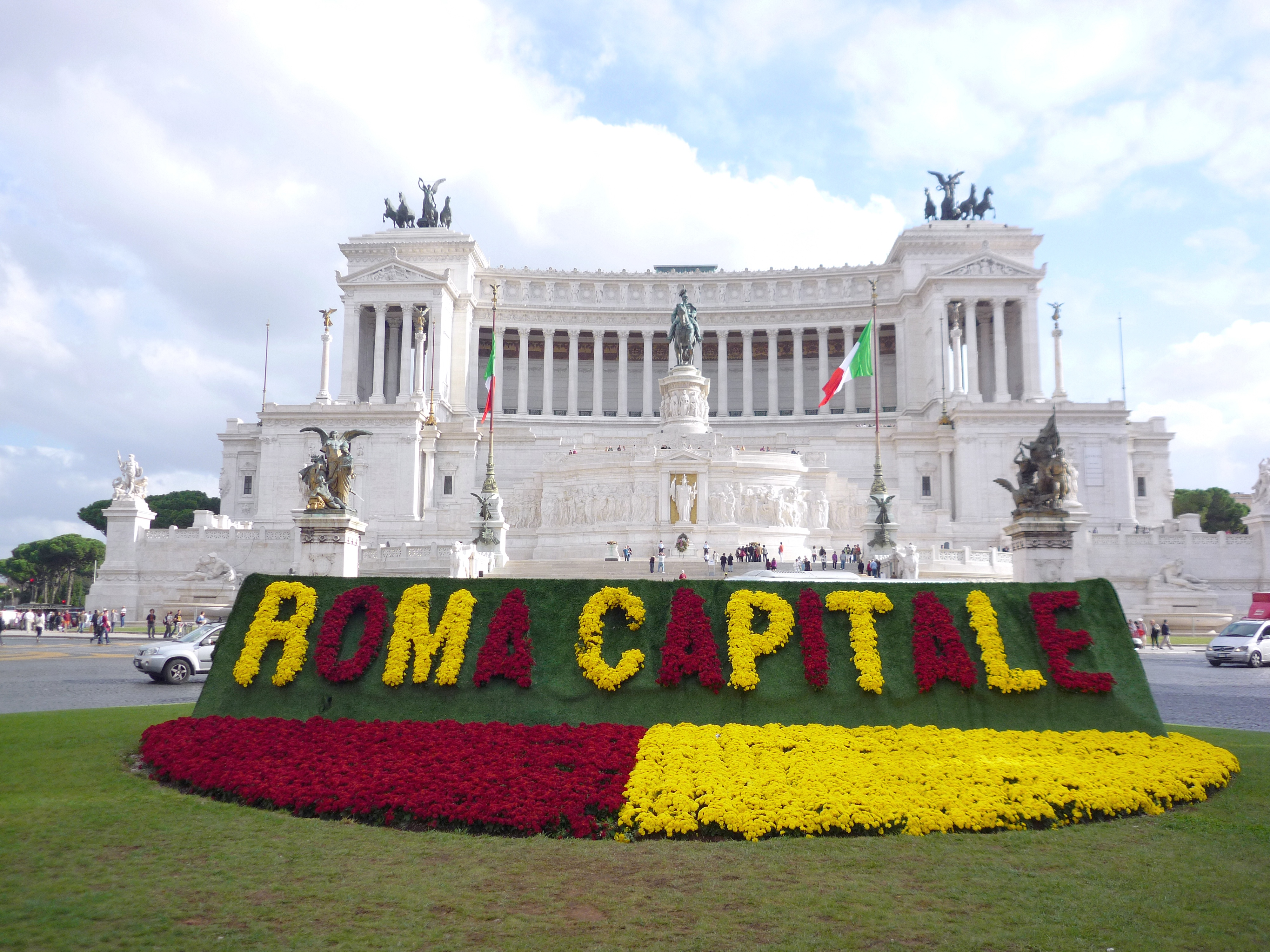 Rome - Piazza Venezia and Monument of Vittorio Emanuele II